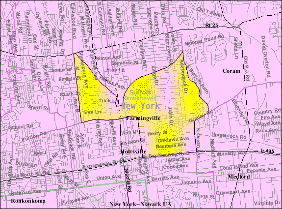 U.S. Census 2000 reference map for Farmingville